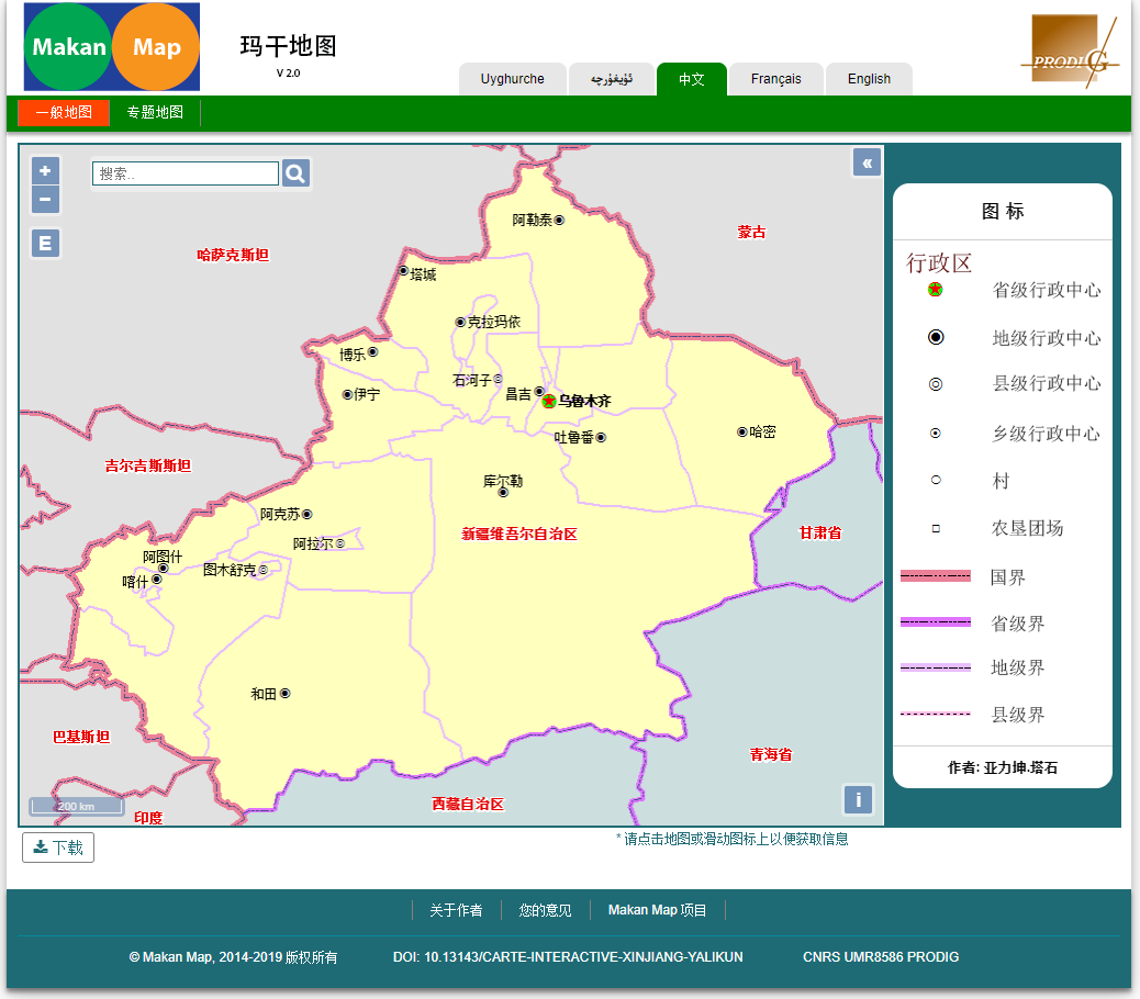 screenshot of Makan Map